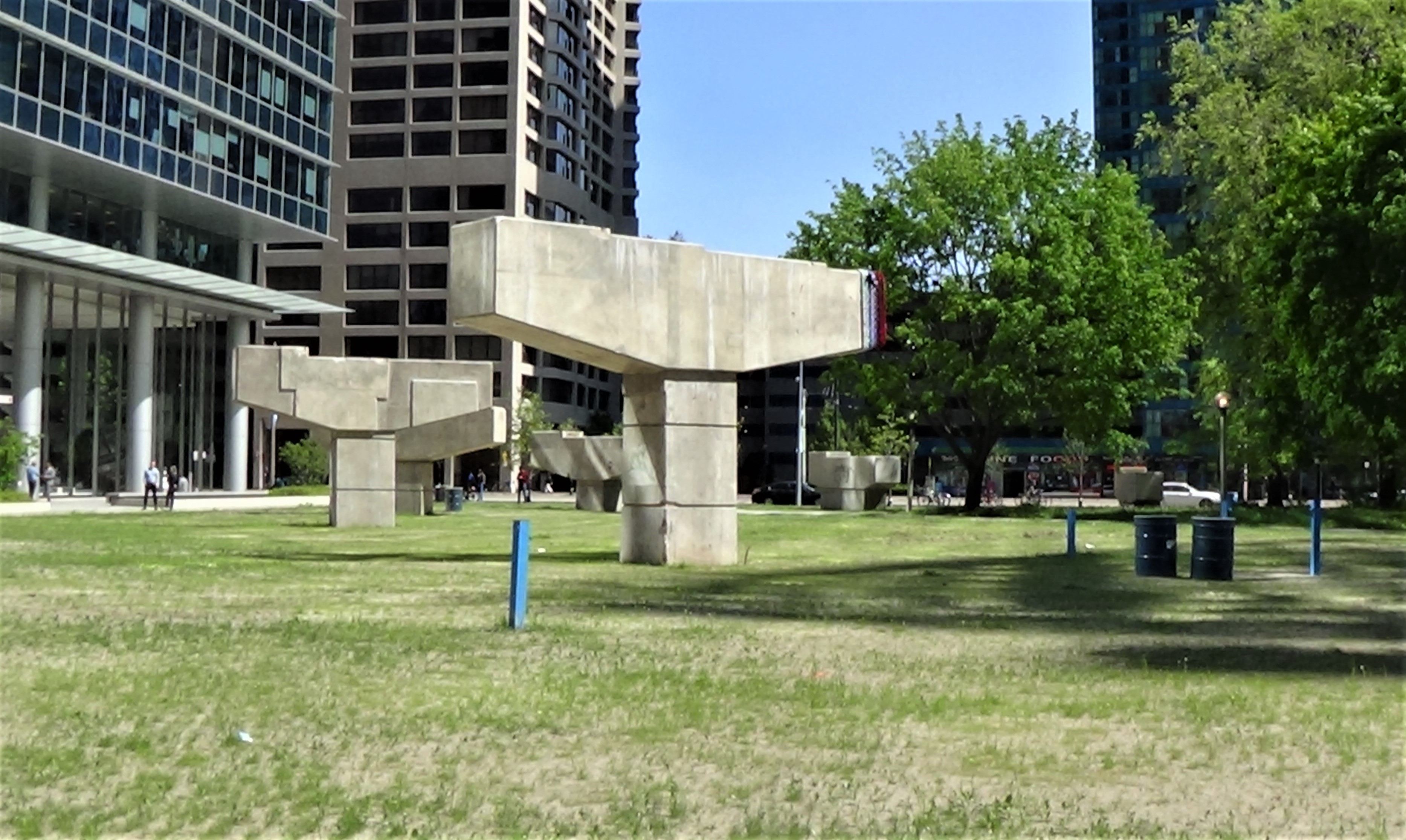 Supports from the York Street loop ramp not yet removed